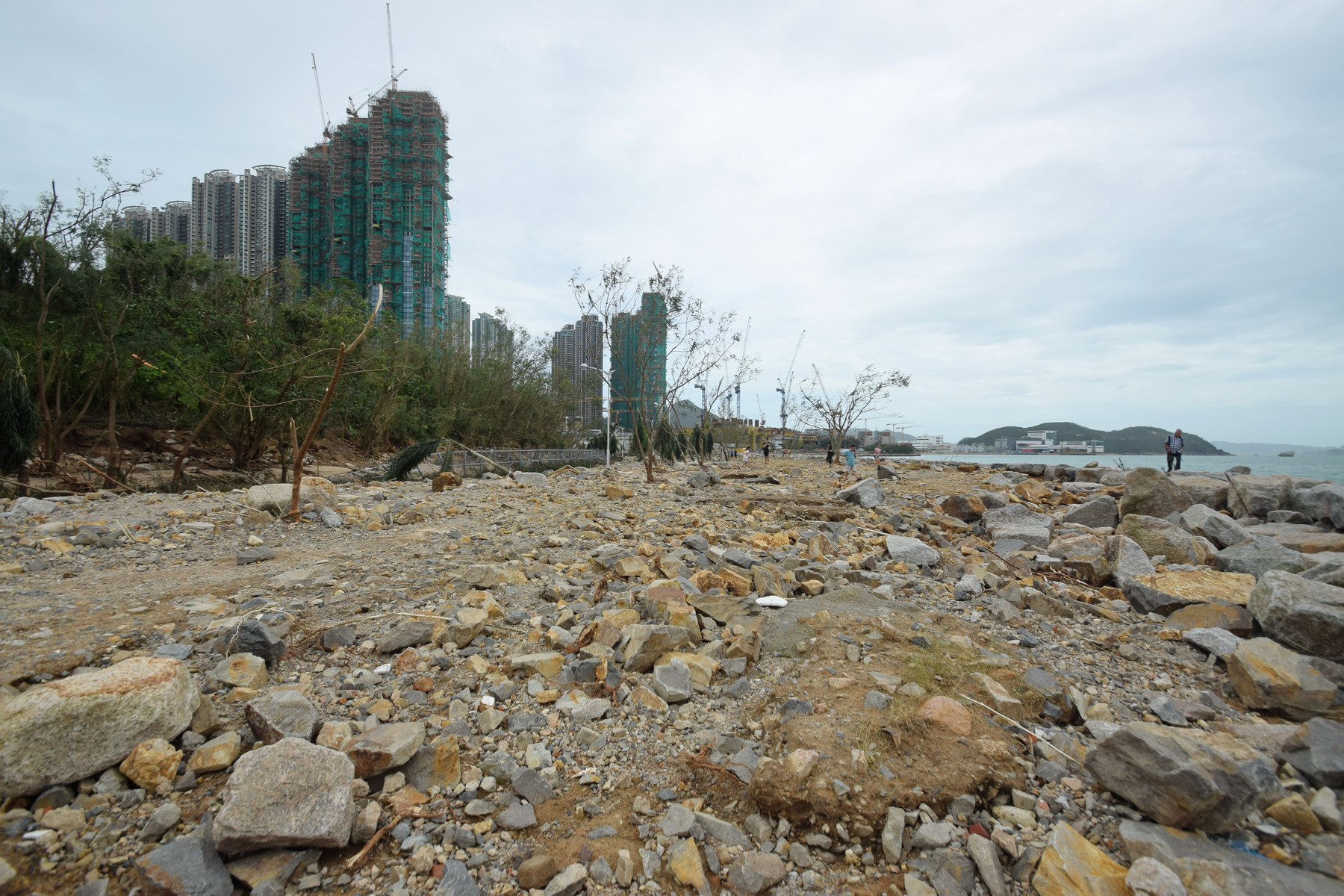 Tseung Kwan O South Waterfront Promenade near LOHAS Park, after buffeting caused by Severe Typhoon Mangkhut.